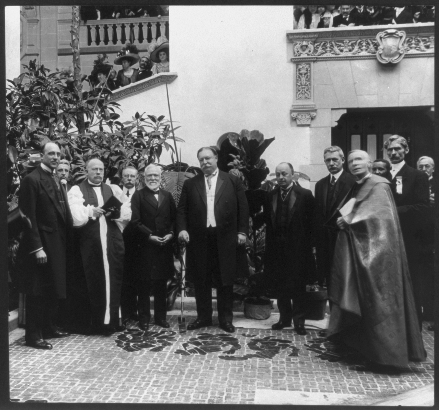 Andrew Carnegie, William Howard Taft, Elihu Root and Cardinal Gibbons, with others posed in Pan American Union Building, Washington, D.C.